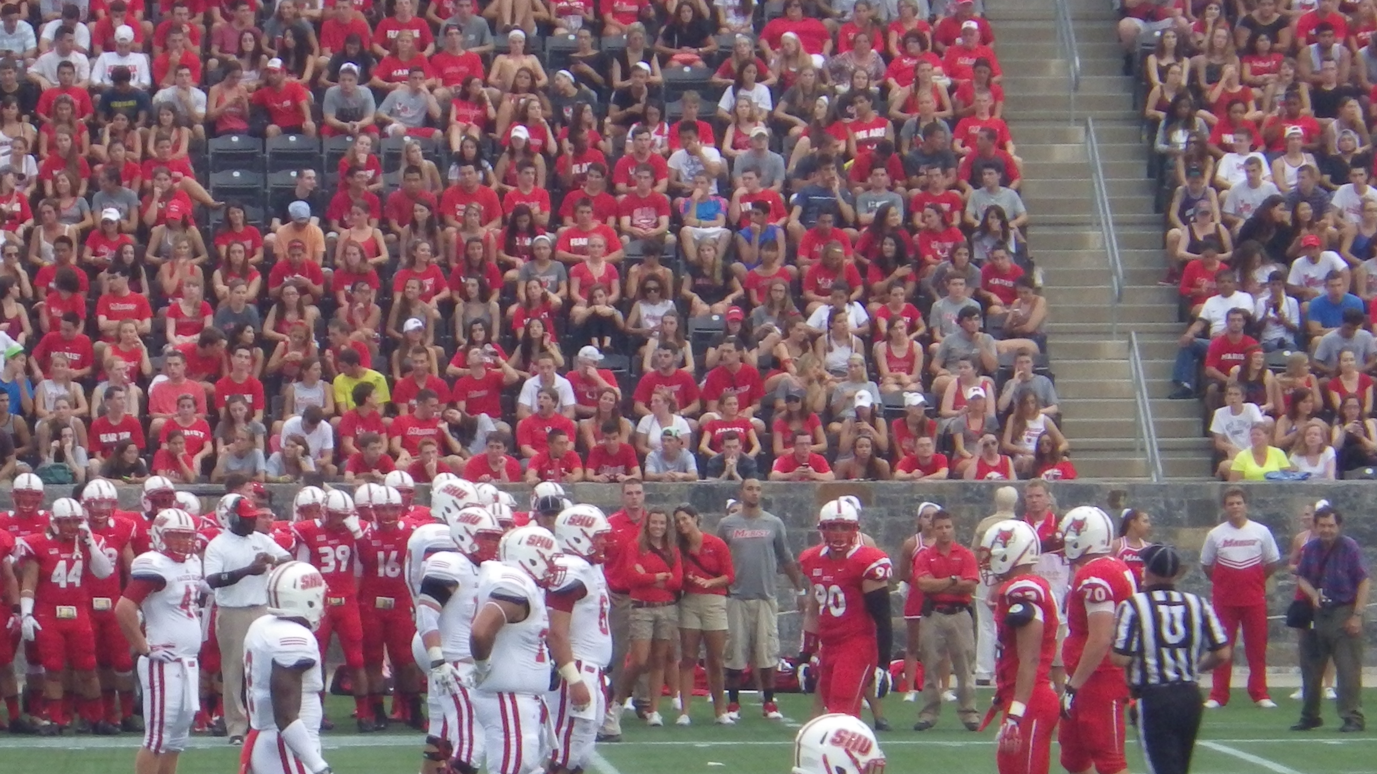 Marist vs Sacred Heart 8-31-13